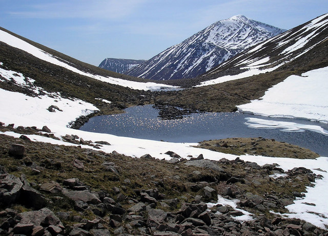 Pools of Dee looking South. View from the Pools of Dee Southwards down the Lairig Ghru looking towards Cairn Toul and the Devils Point